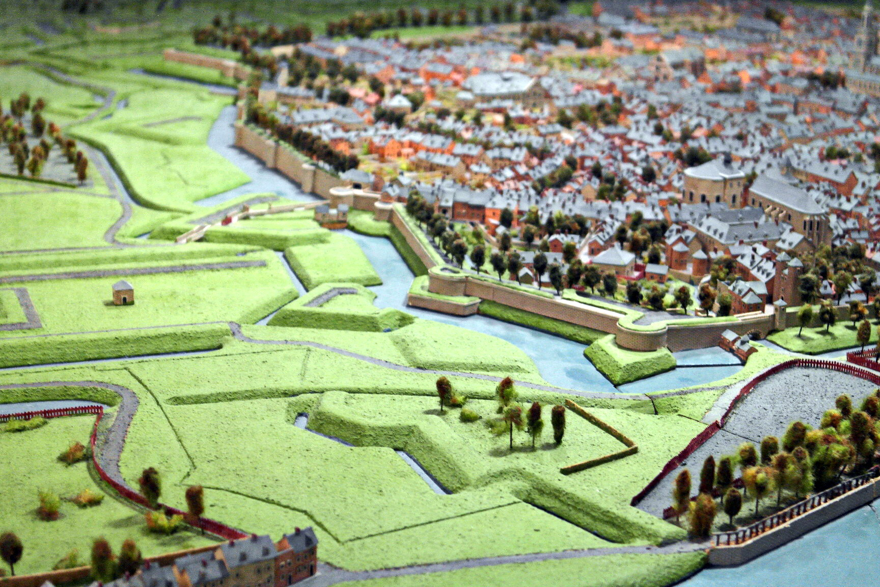 Detail of the copy of the French Maquette of Maastricht on display in Centre Céramique, Maastricht, the Netherlands. The copy was made in 1974-1982, based on the mid-18th-century scale model made for King Louis XV of France. This section shows the southern city wall with bastions De Vijf Koppen (nearest), Haet ende Nijt, Carolina and La Rive.